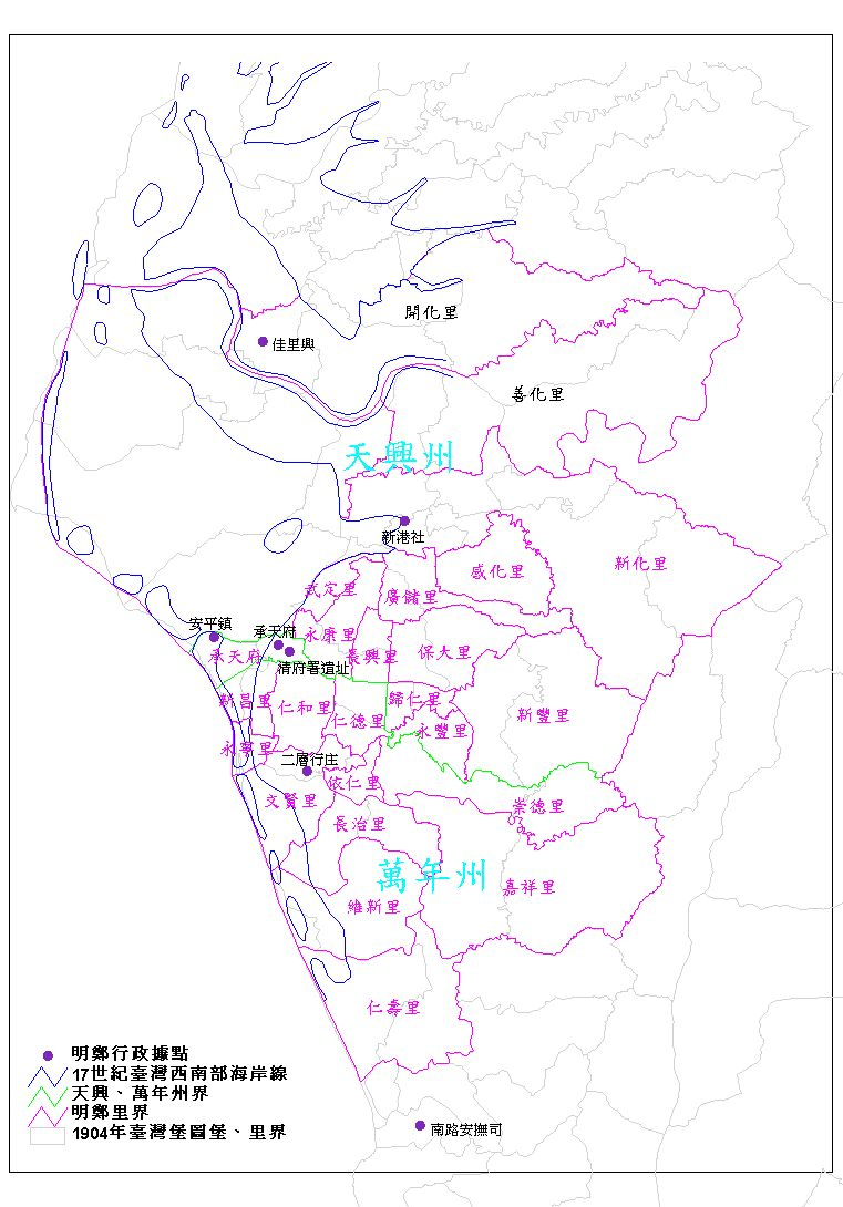 The administrative division of Kingdom of Tungning